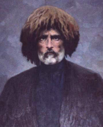 Georgian writer Vazha Pshavela